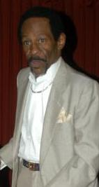 Christina Noir and Johnnie Keyes at the FOXE Awards on February 20, 2005